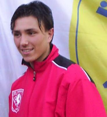 FC Twente player Steven Berghuis